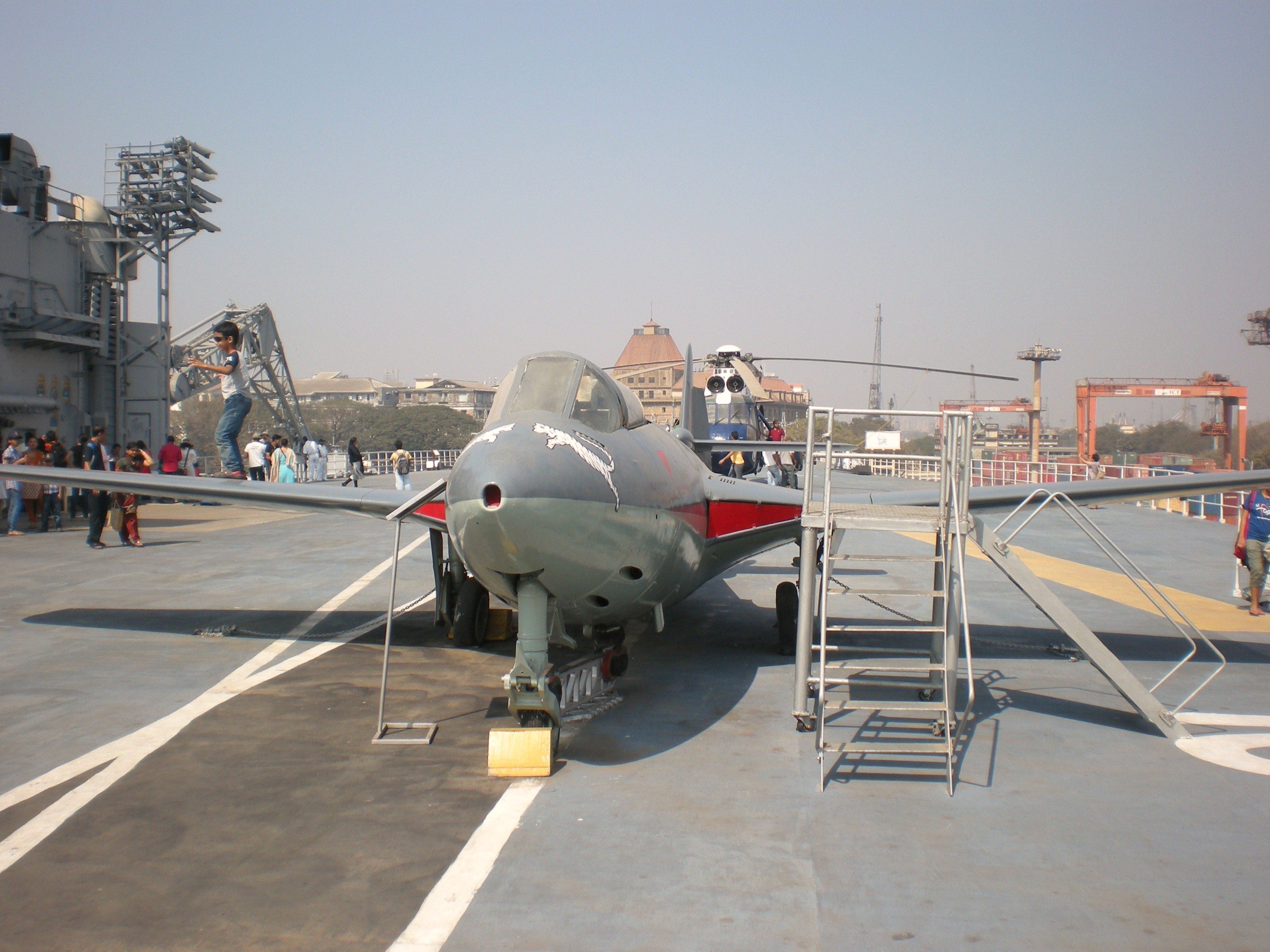 on board INS Vikrant